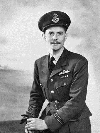 London, England. Portrait of Flight Lieutenant H. B. Martin DSO DFC, Sydney, NSW, Royal Air Force Volunteer Reserve, at Overseas Headquarters RAAF. He was awarded the DSO for the part he played in the raid on the German dams on 1943-05-16.